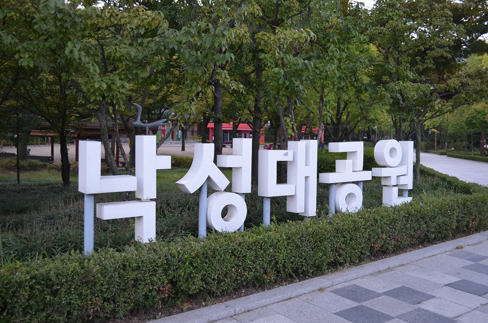 Sign of Nakseongdae Park, Seoul, South Korea. The park contains Anguksa shrine, which commemorates general Gang Gam-chan (948-1031).